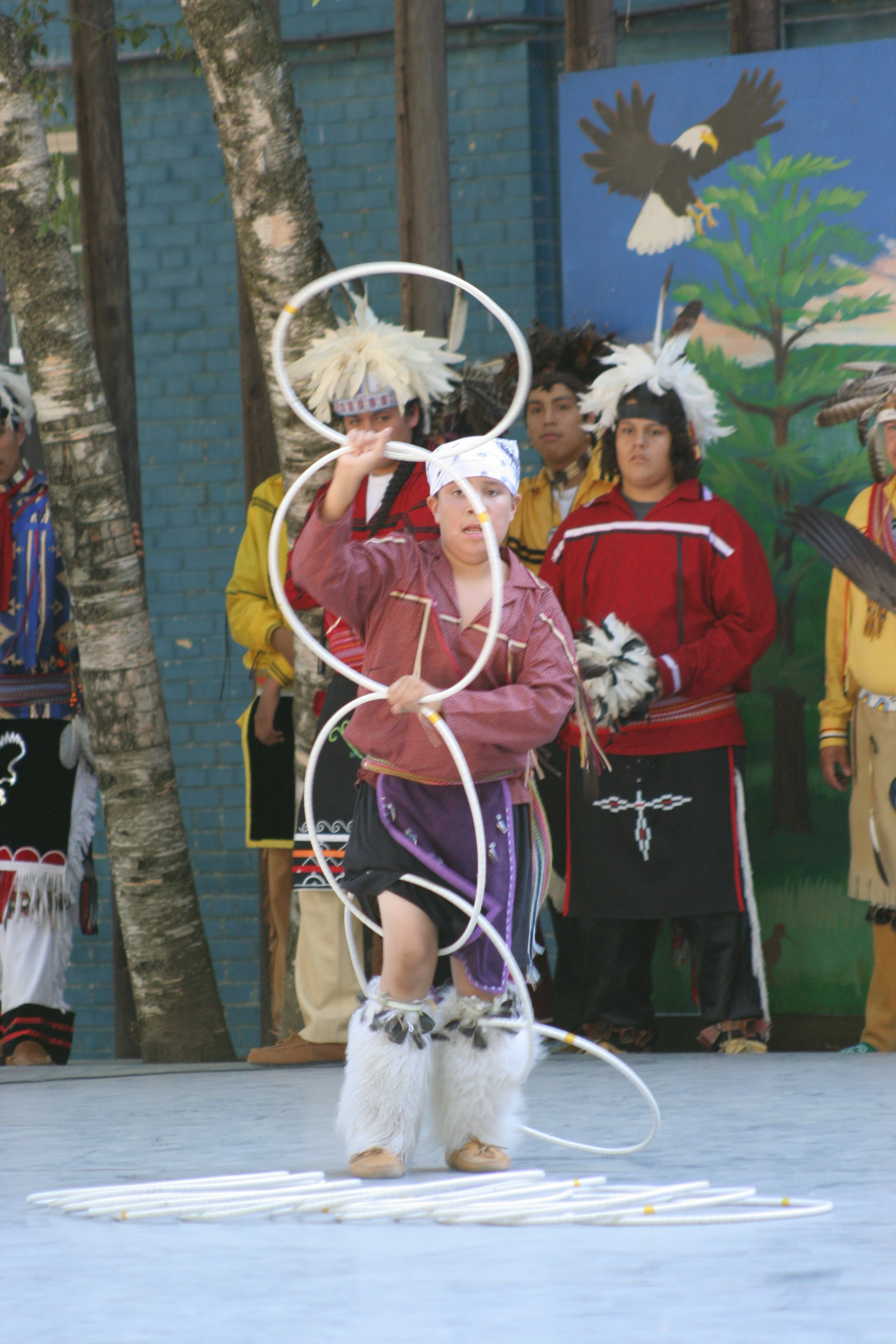 Traditional dance performance in the Iroquois Indian Village at the 2008 New York State Fair.